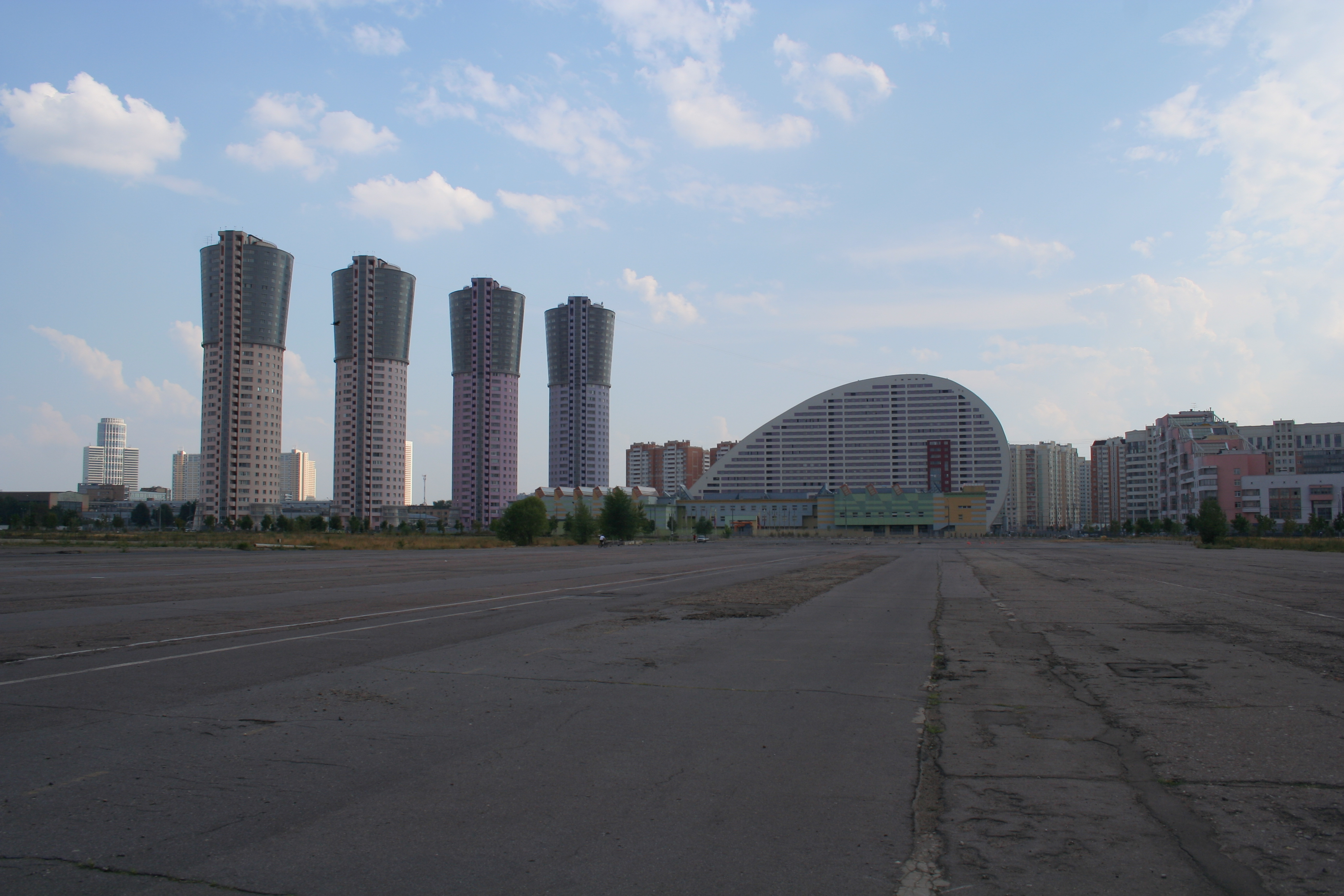 The Khodynka Field in Moscow. Views of the field in 2010.